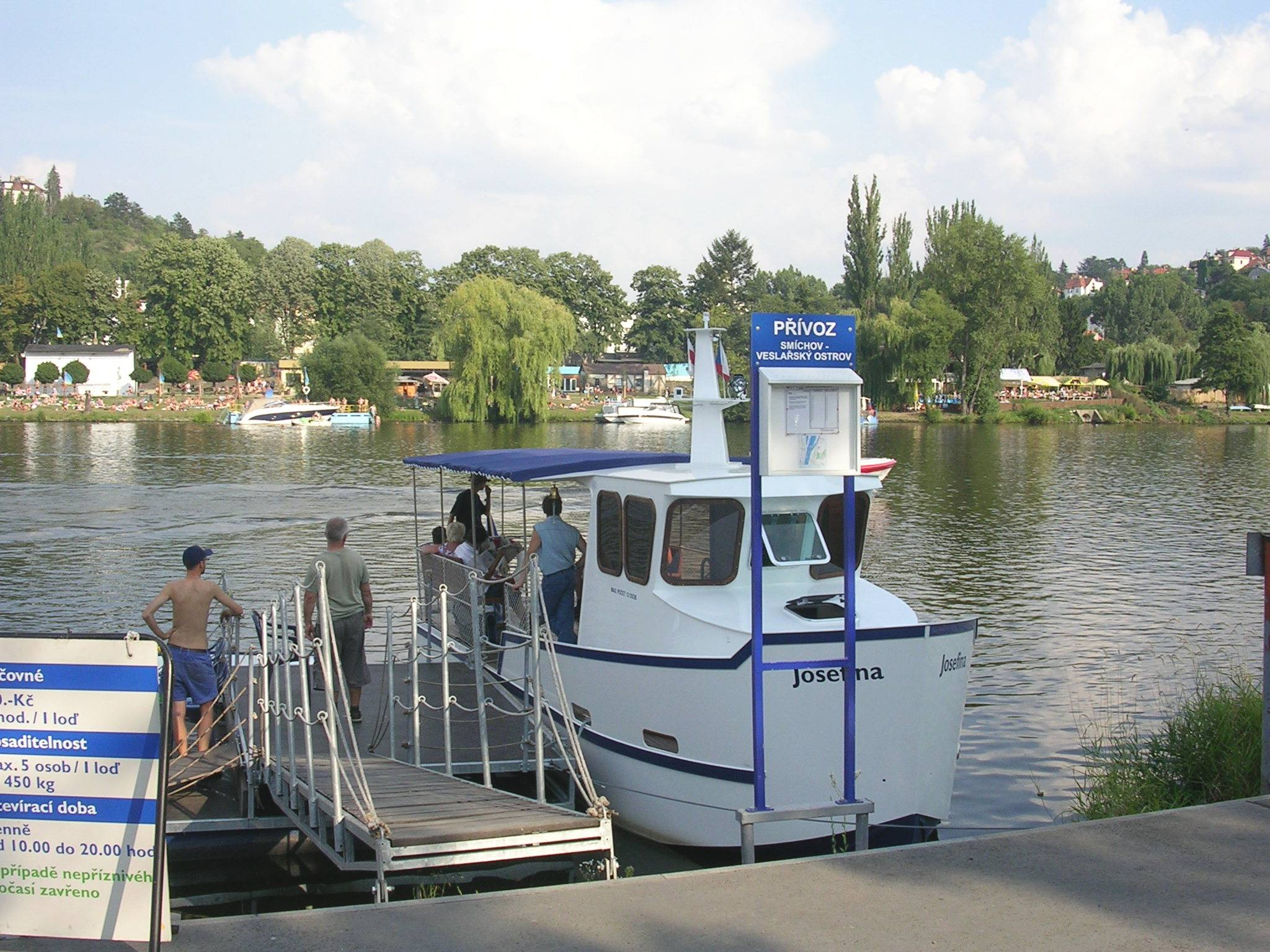 Vltava ferry Zlíchov, Lihovar – Podolí, Veslařský ostrov, Prague, Czech Republic.